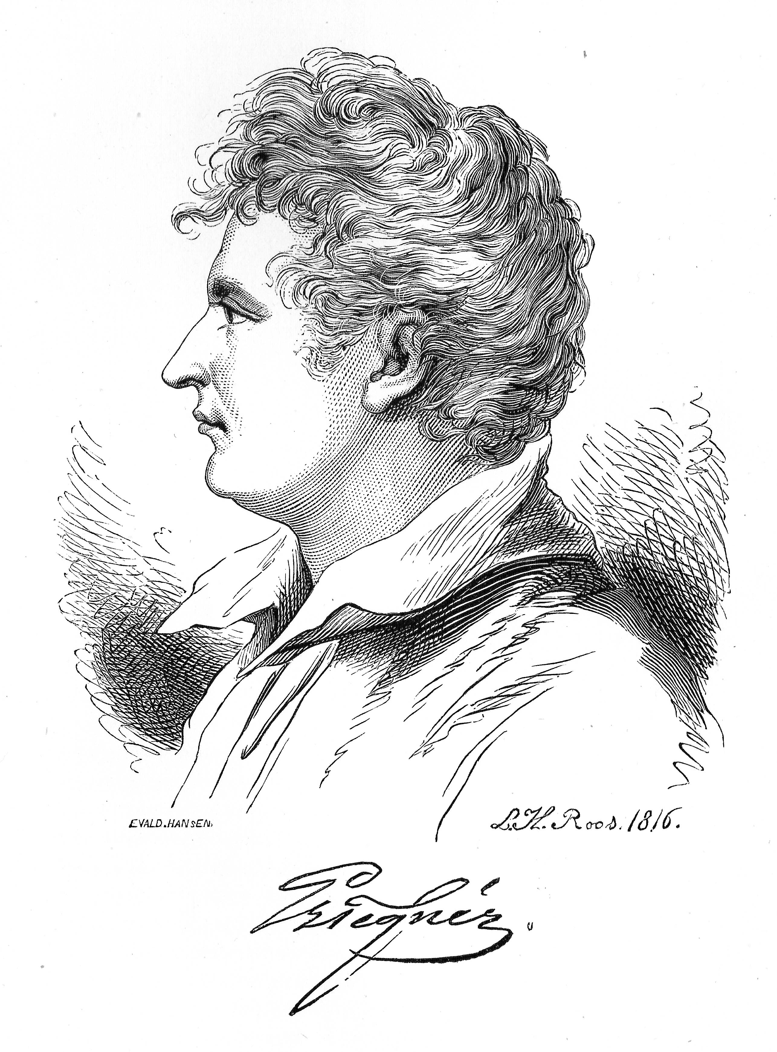 Esaias Tegnér, (1782-1846), swedish writer, professor of Greek language, and bishop.